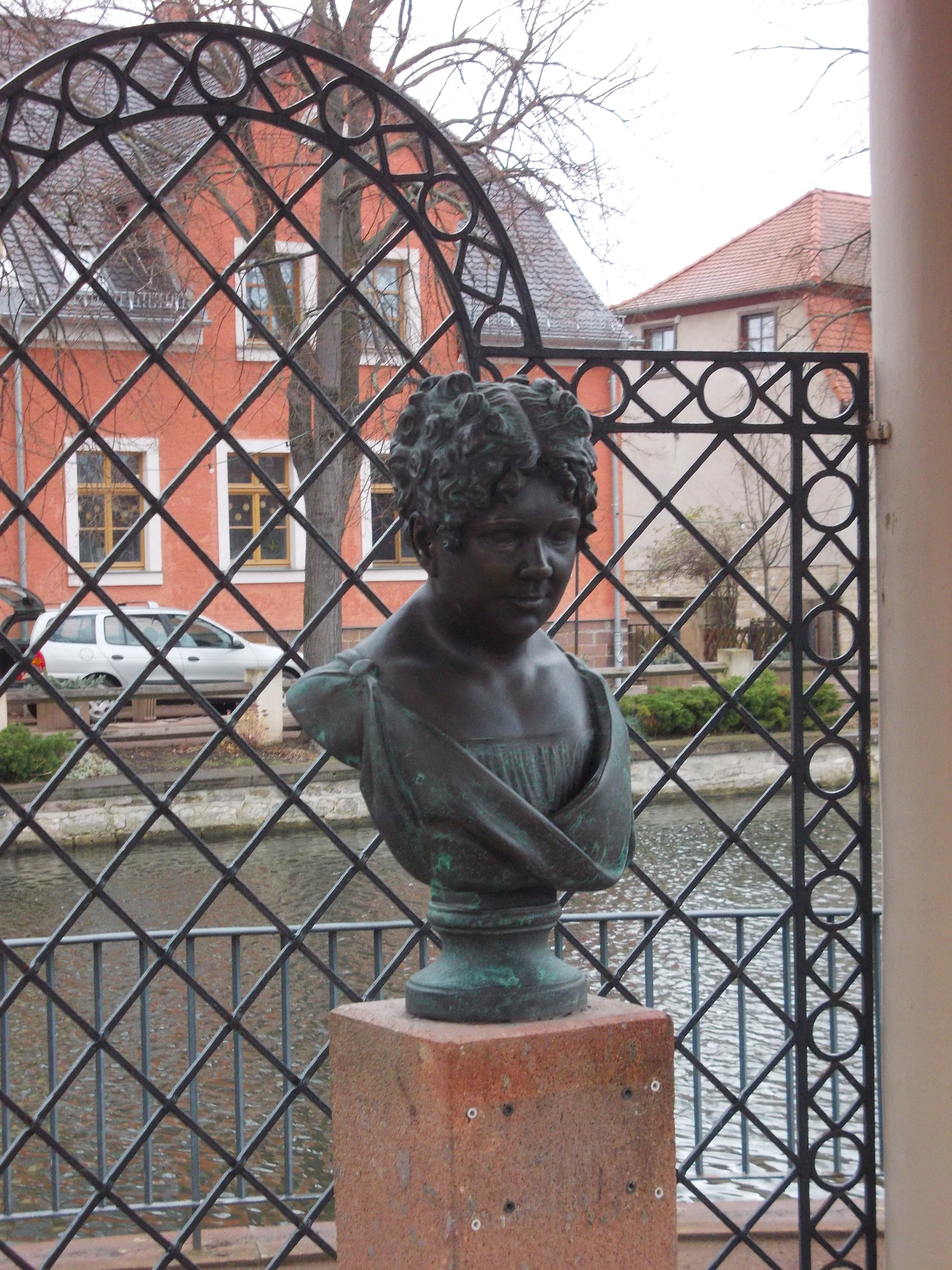 Bust of Christiane Vulpius in the spa gardens of Bad Lauchstädt (Saalekreis, Saxony-Anhalt)